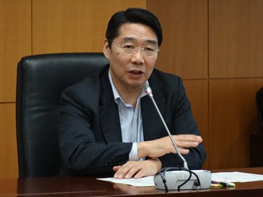 Kihei Maekawa, Vice-Minister of Education, Culture, Sports, Science and Technology, attended a meeting at the Central Government Building No.7 in Chiyoda Ward, Tōkyō Metropolis on June 7, 2016.